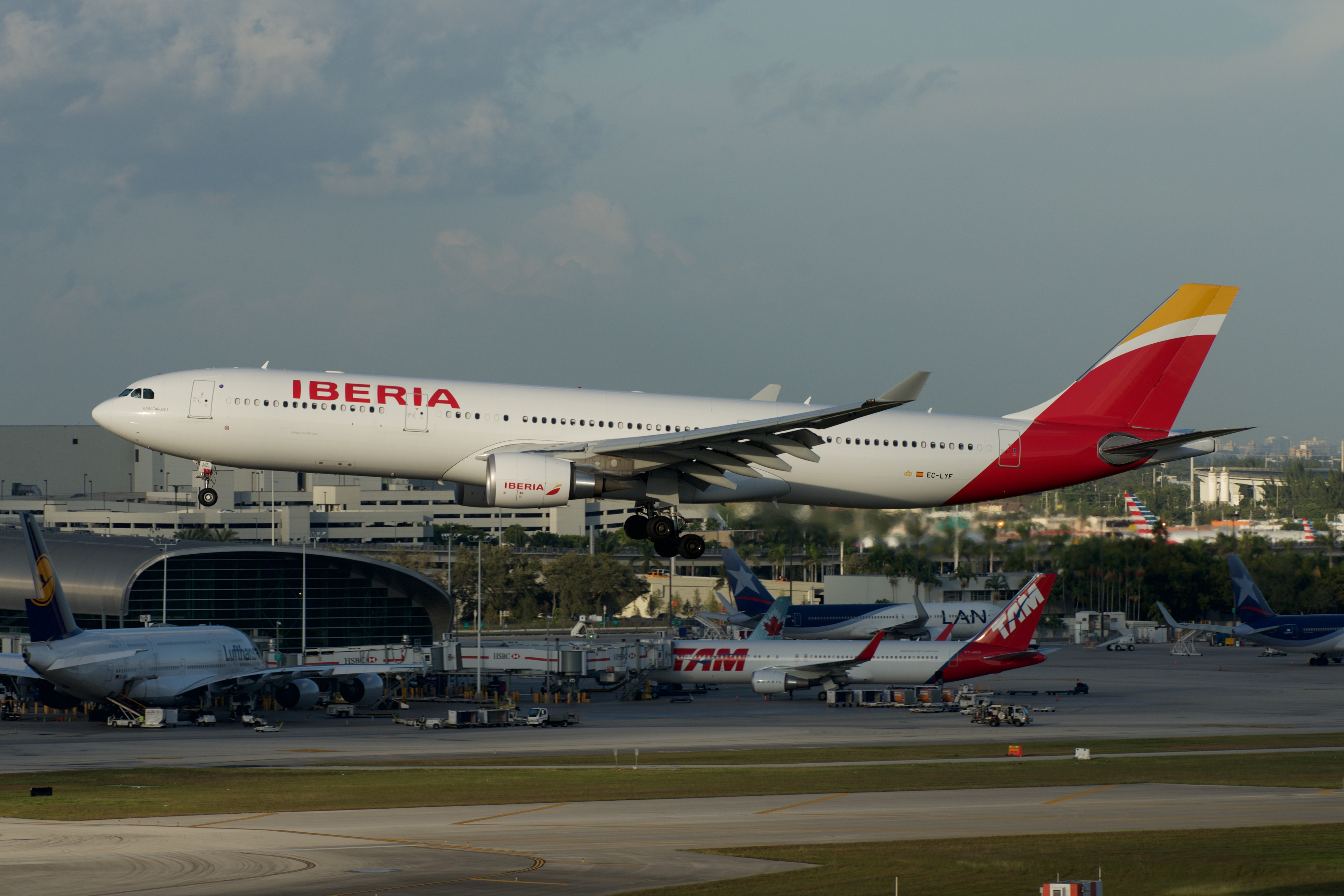 Short Final, MIA